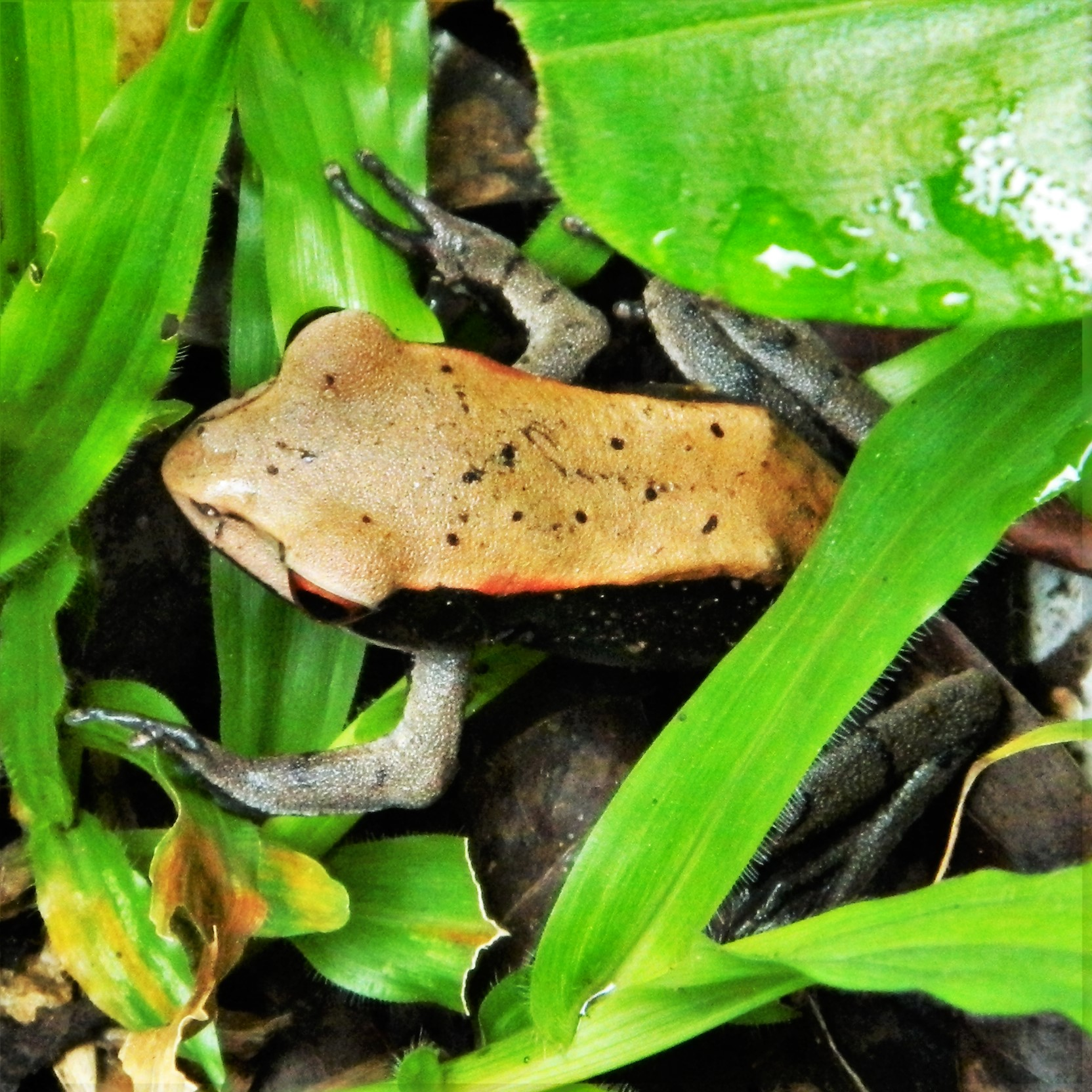 Clinotarsus curtipes is a species of frog found in the Western Ghats of India.